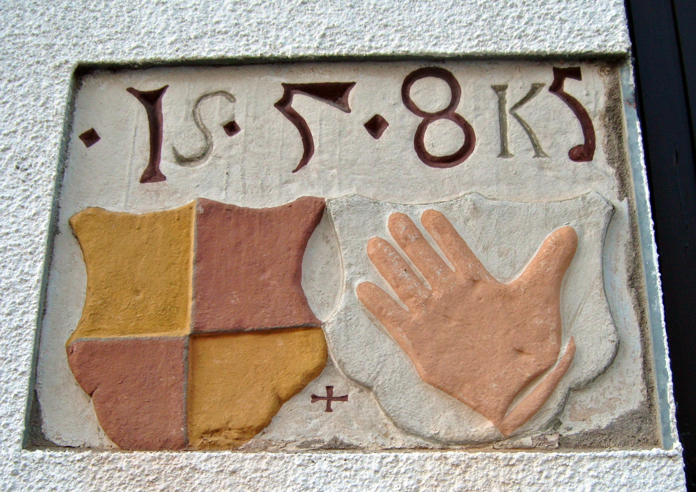 Lambsheim Hinterstraße 11, Wappenstein Leyser von Lambsheim und von Handschuhsheim, 1585